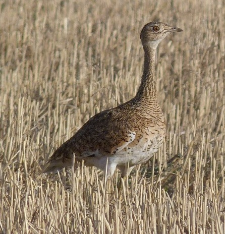 Female near Tàrrega, Lleida, Catalonia.